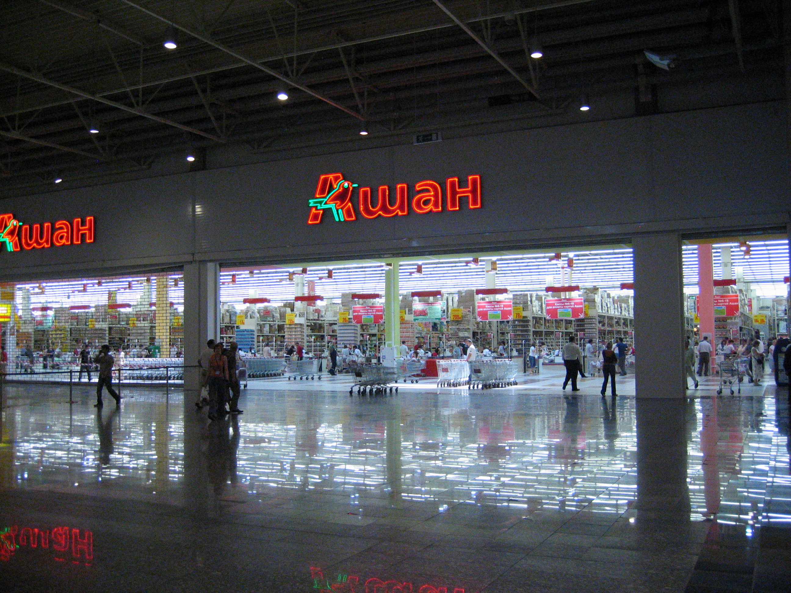 Auchan Hypermarket, MEGA Moscow Belaya Dacha